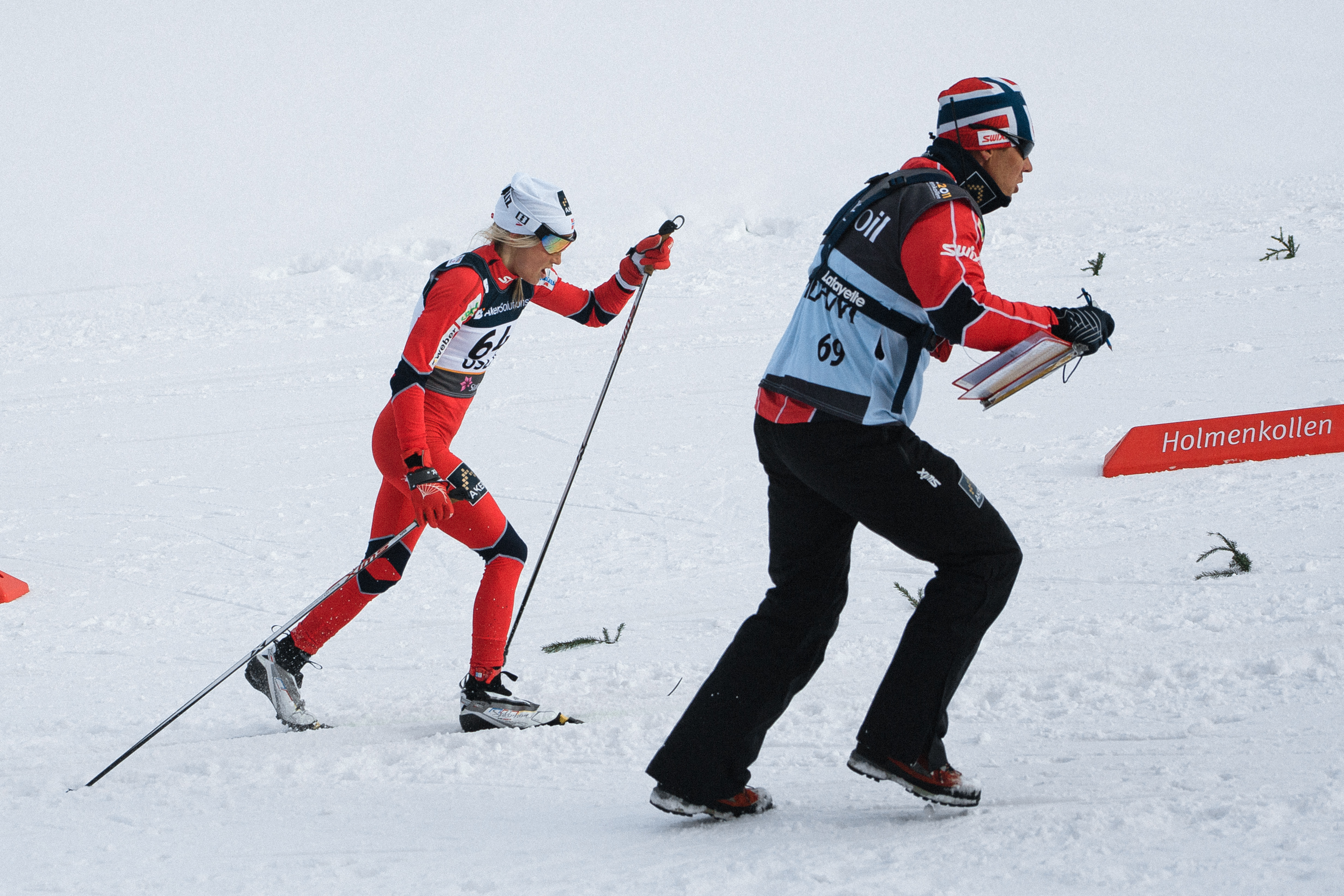 Therese Johaug - Oslo 2011